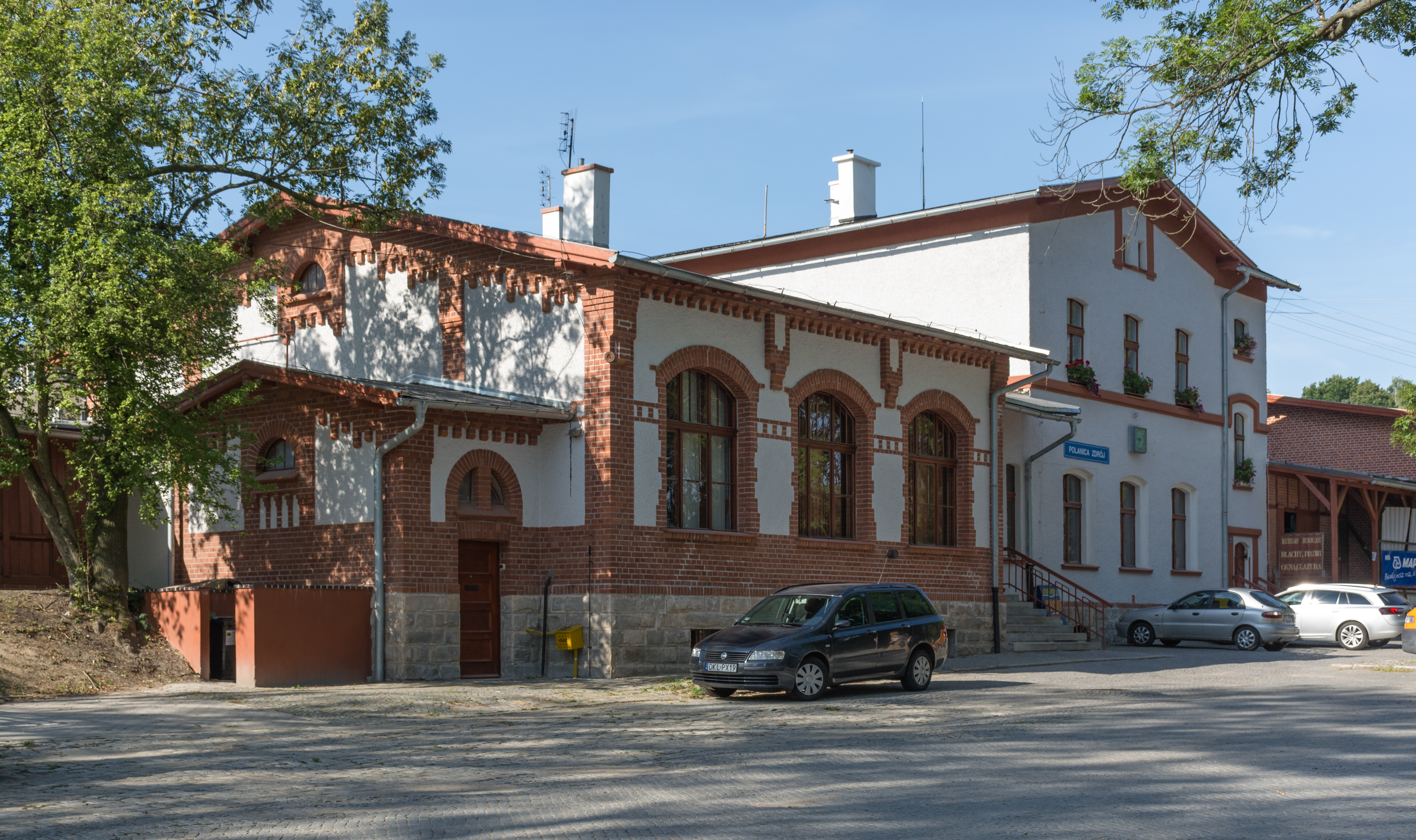 Polanica-Zdrój train station